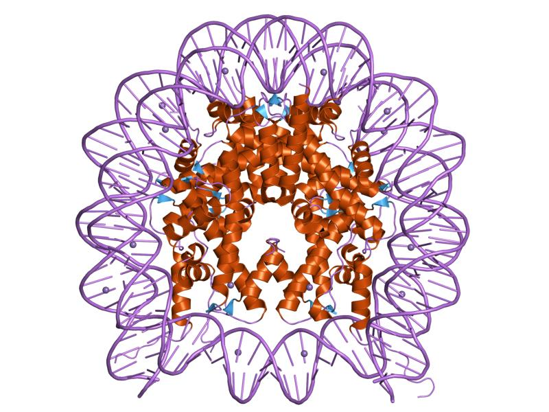 Cartoon representation of the molecular structure of protein registered with 1f66 code.